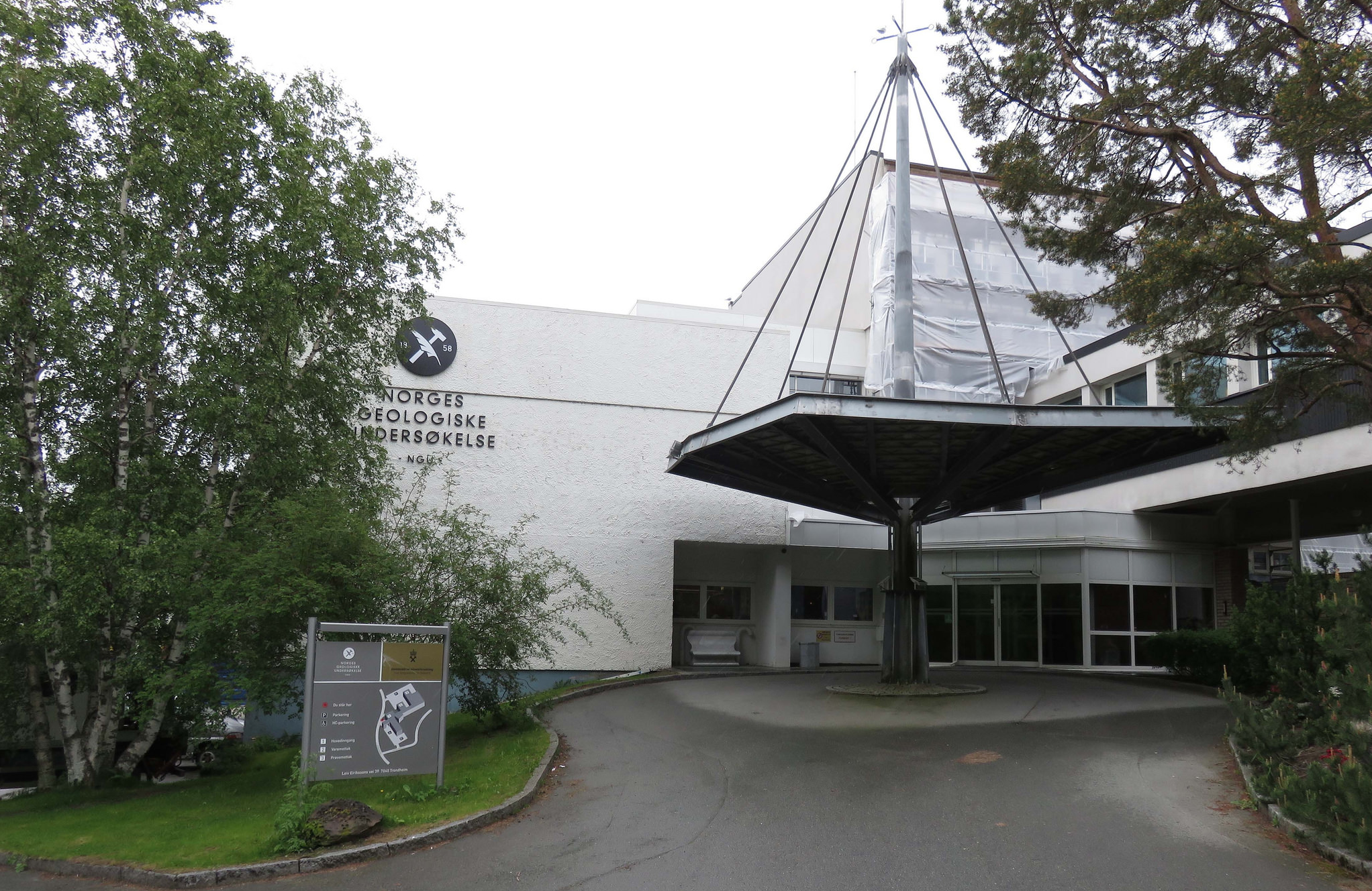 NGU main entrance